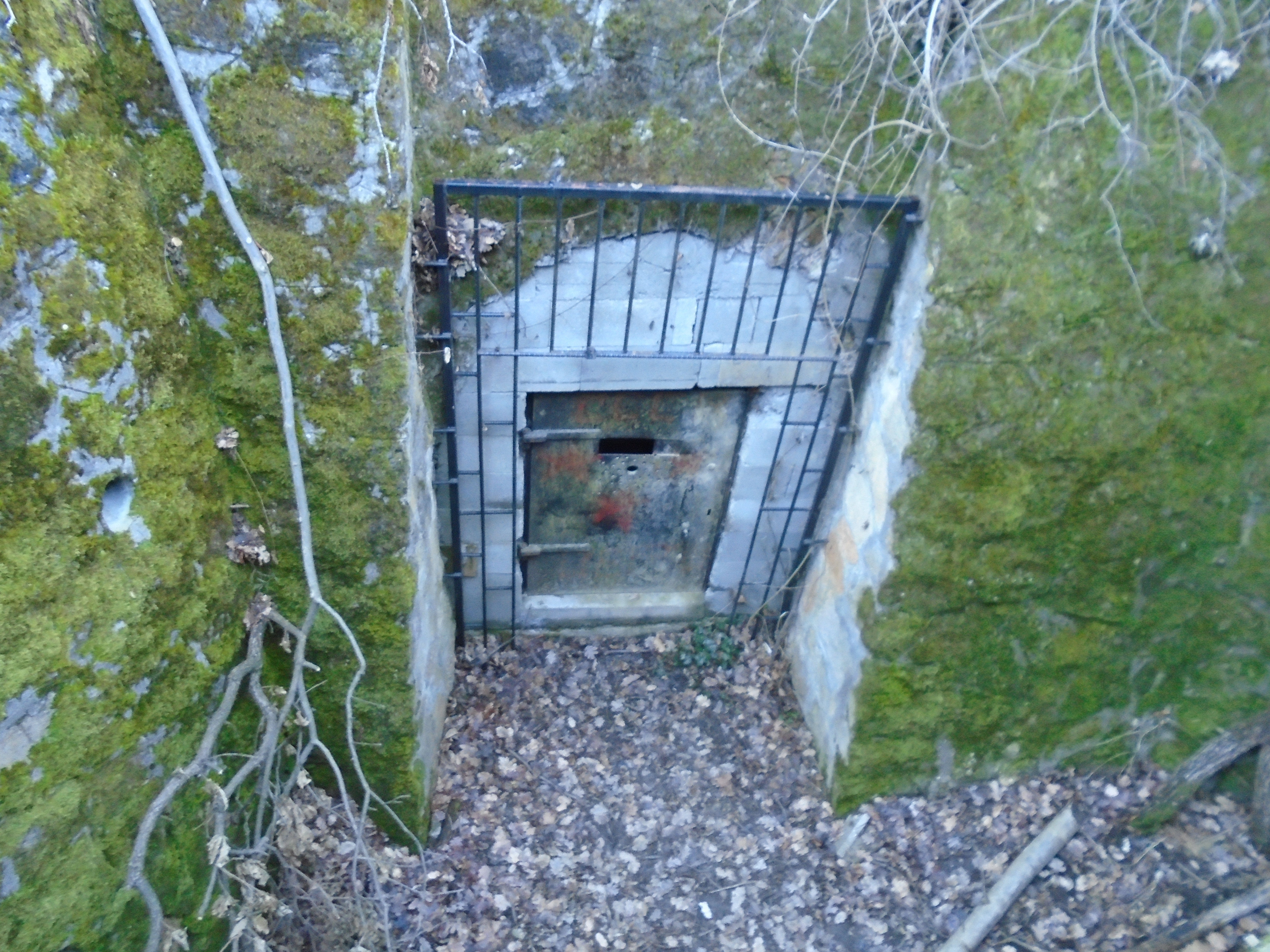 Entrance of tunnel of Királylaki Cave.